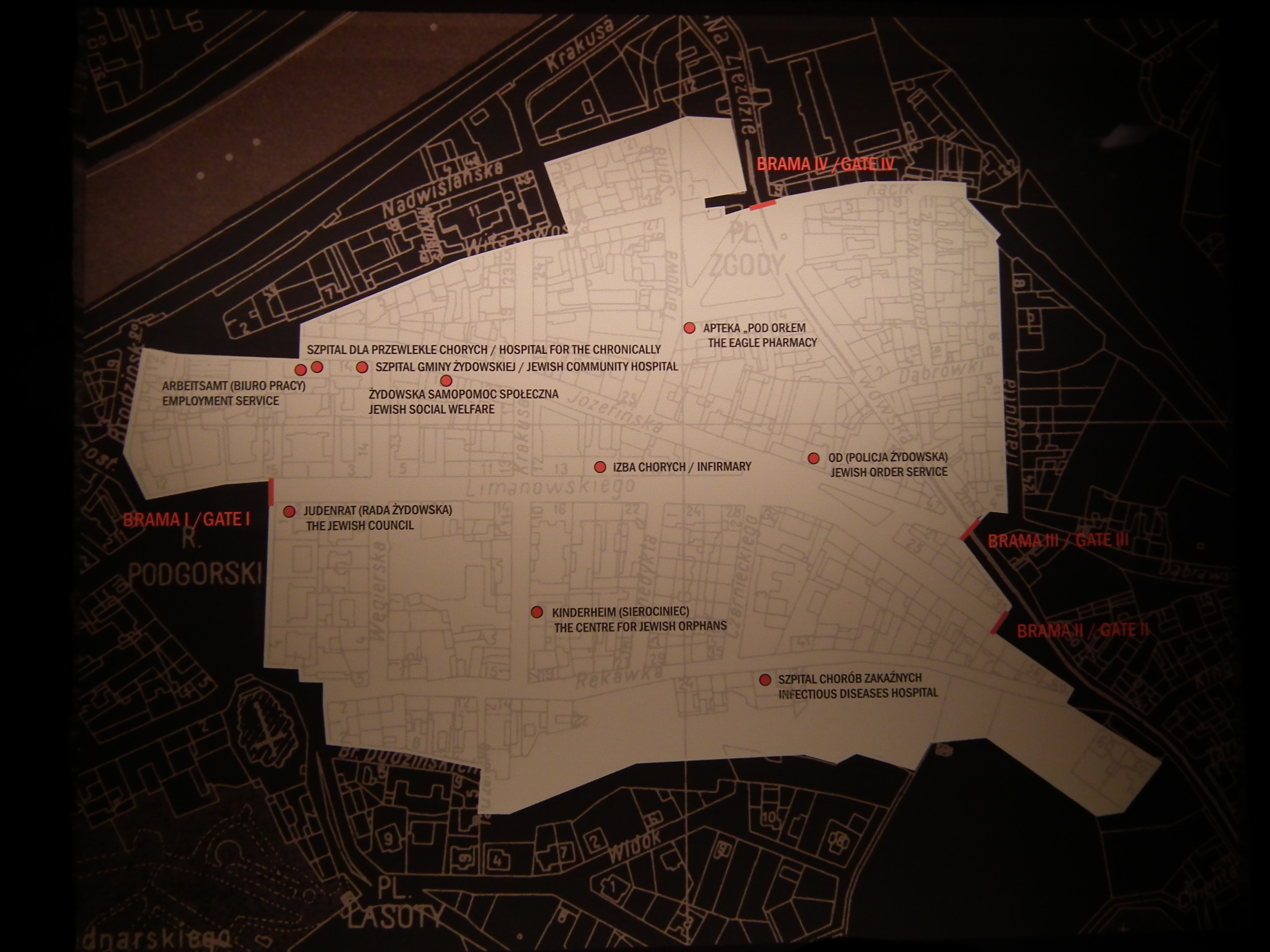 Plan of Getto in Kraków